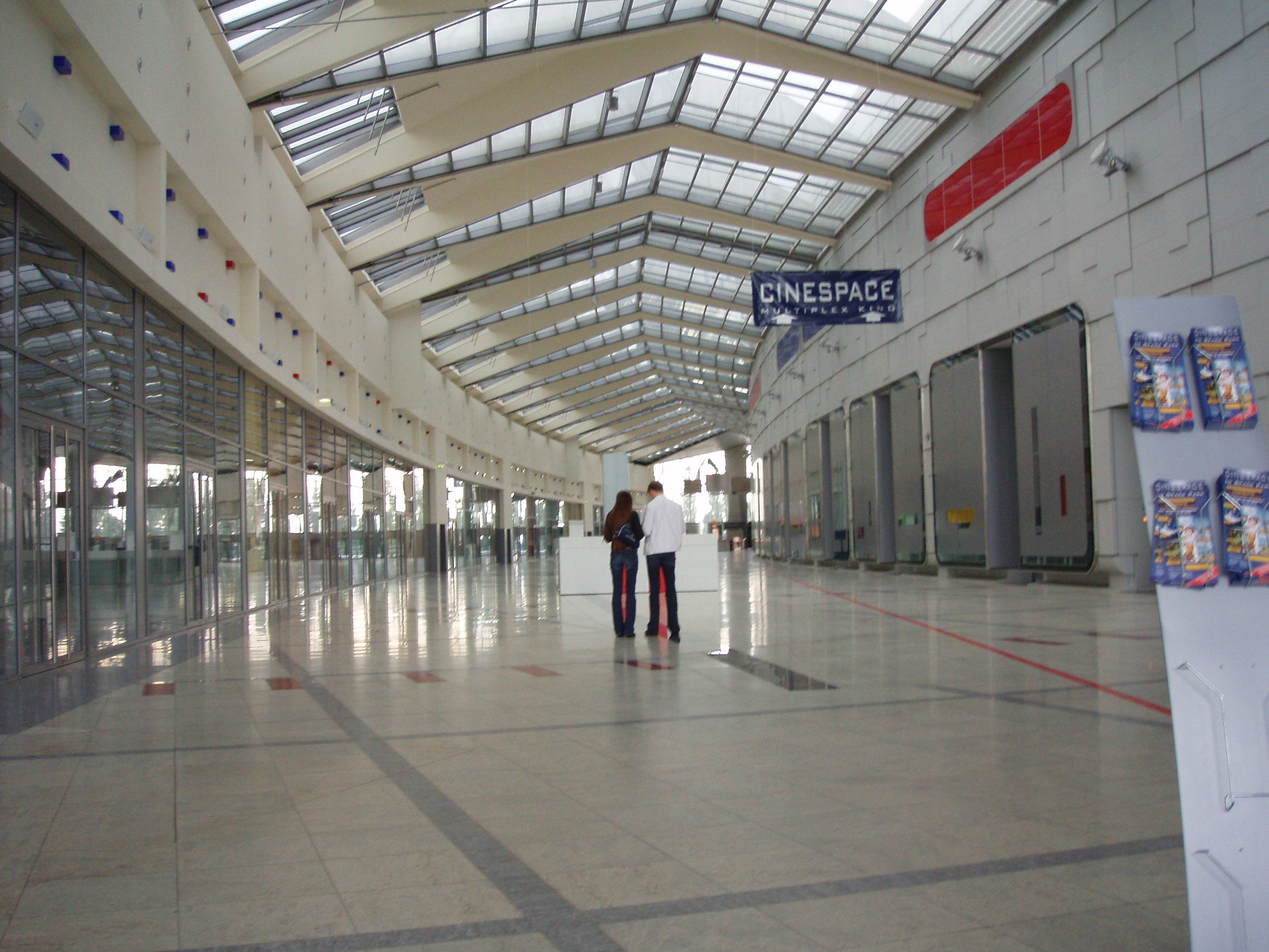 Space Park Bremen